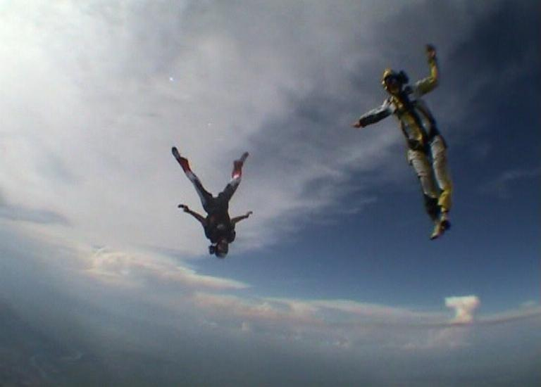 Seph and Mimmo - Head down and head up flying